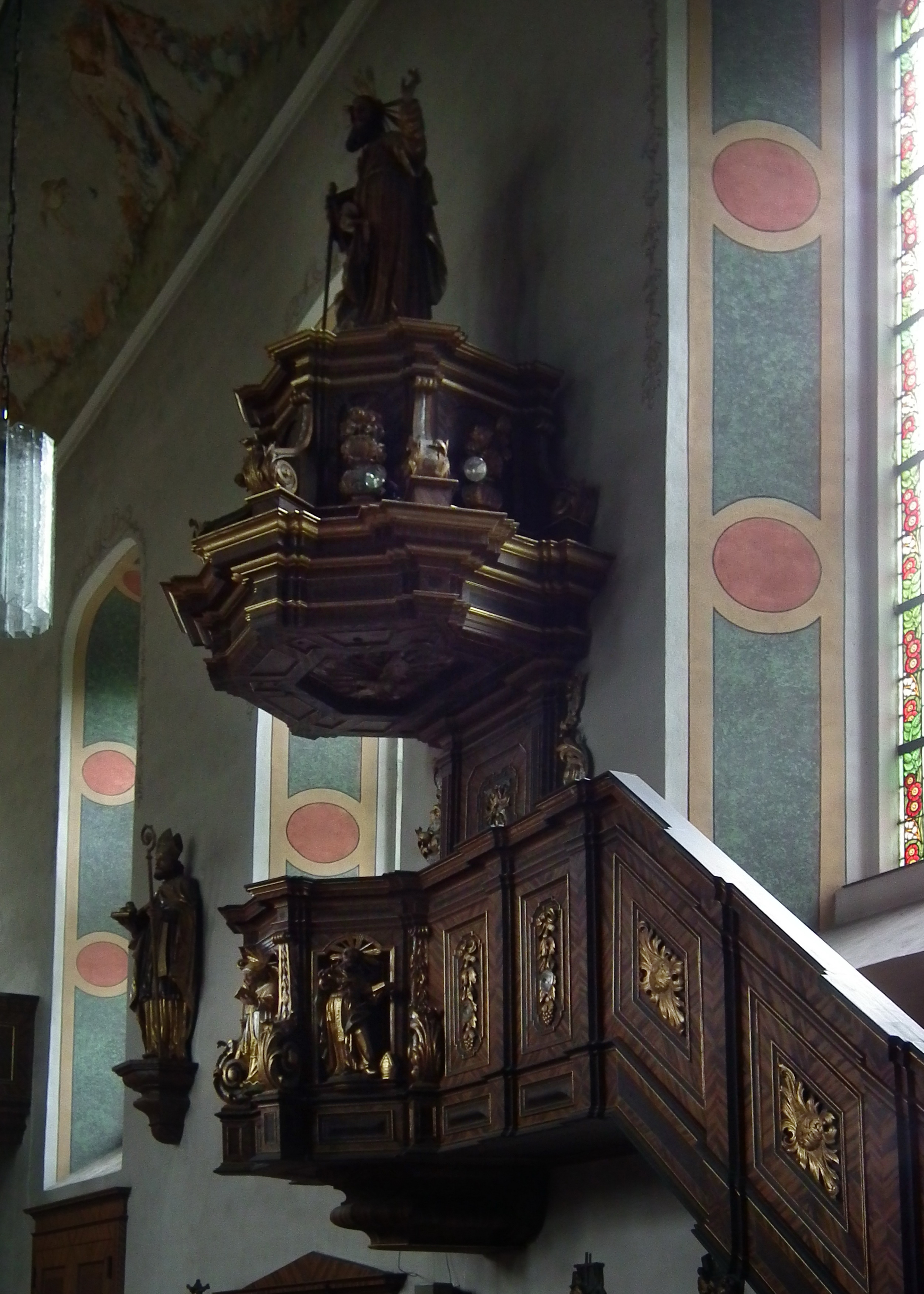 Chapel of Saint Mary Native nameMarienkapelleLocationBad Kissingen, Lower Franconia, GermanyCoordinates50° 12′ 08″ N, 10° 05′ 06″ E Authority control : Q1897733